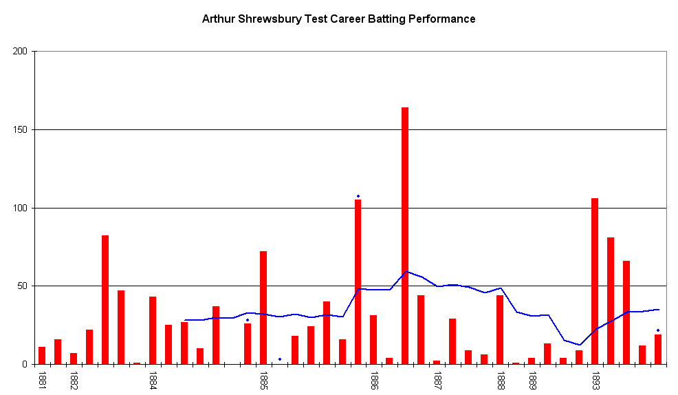 This graph details the Test Match performance of Arthur Shrewsbury. It was created by Raven4x4x. The red bars indicate the player's test match innings, while the blue line shows the average of the ten most recent innings at that point. Note that this average cannot be calculated for the first nine innings. The blue dots indicate innings in which Shrewsbury finished not-out. This graph was generated with Microsoft Excel 2002, using data from Cricinfo [1] and Howstat [2].